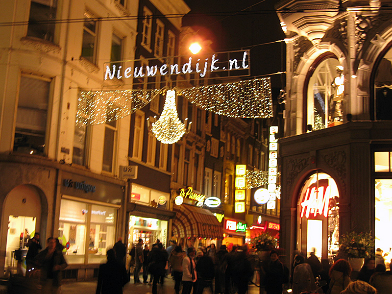 Nieuwendijk in Amsterdam, decorated with Christmas lights. November 2010